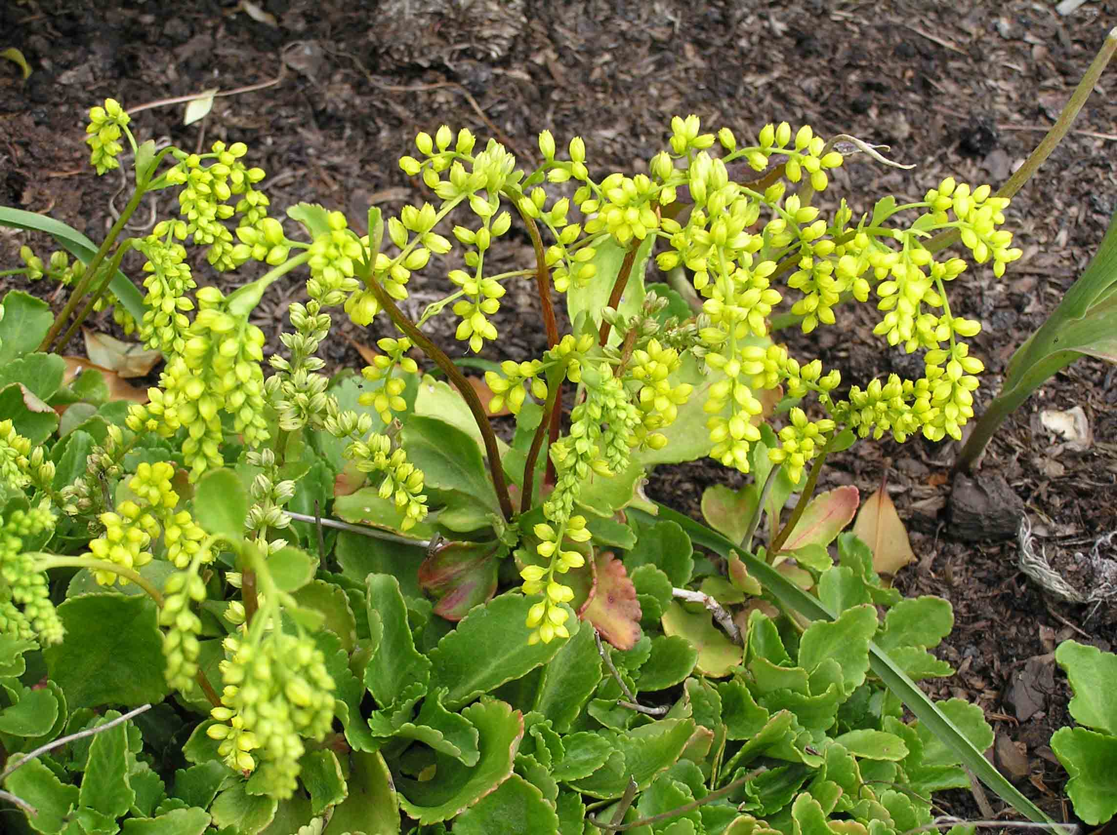 對葉景天 Chiastophyllum oppositifolium [英格蘭 Wisley Gardens, England]